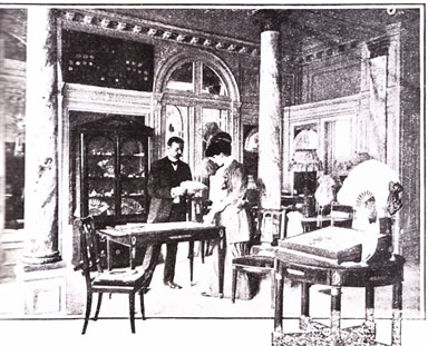 Duvelleroy Boutique, circa 1900